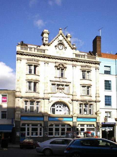 Formerly St Christopher's Inn now called Belushi's